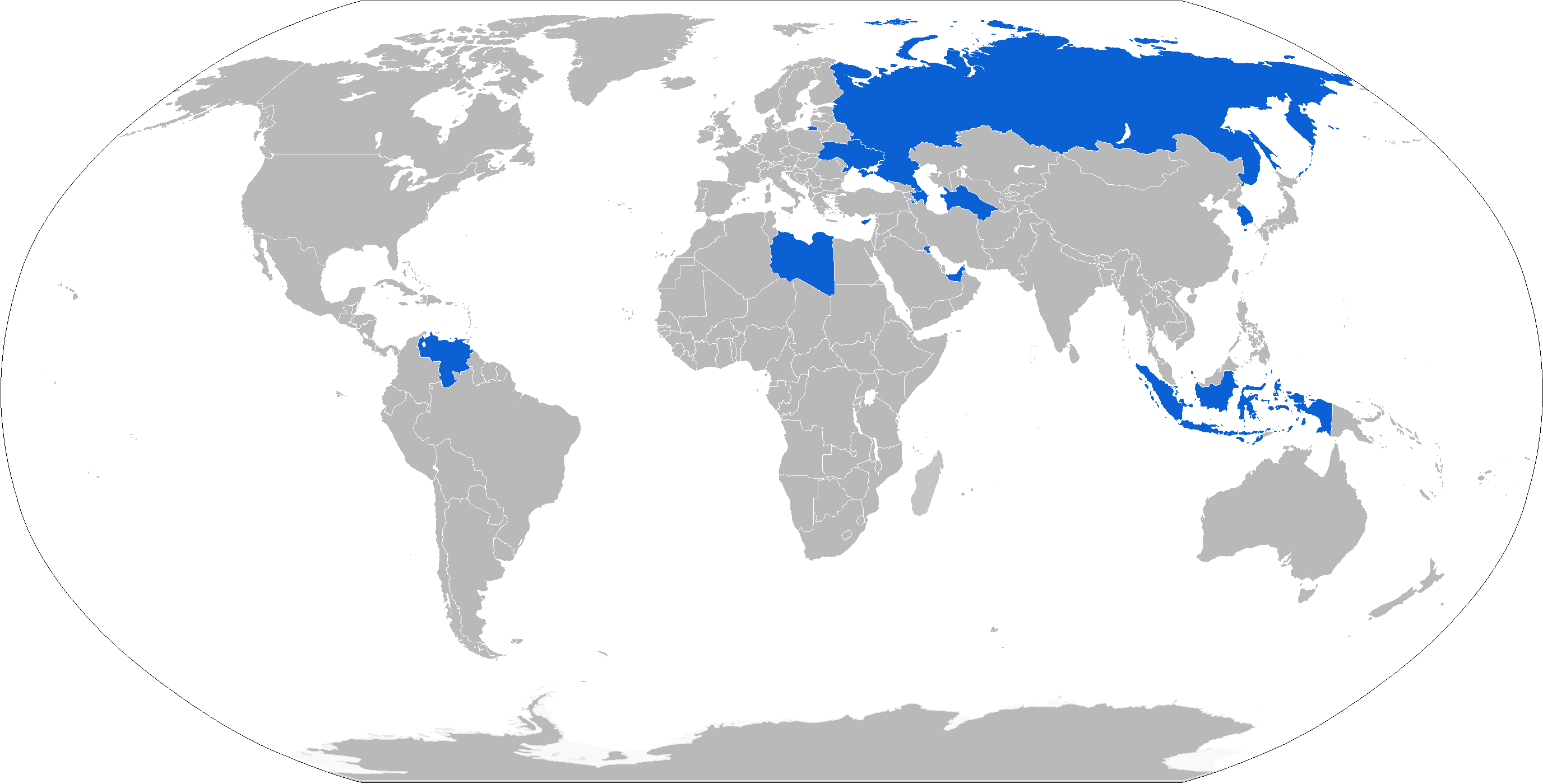 Map of BMP-3 operators in blue